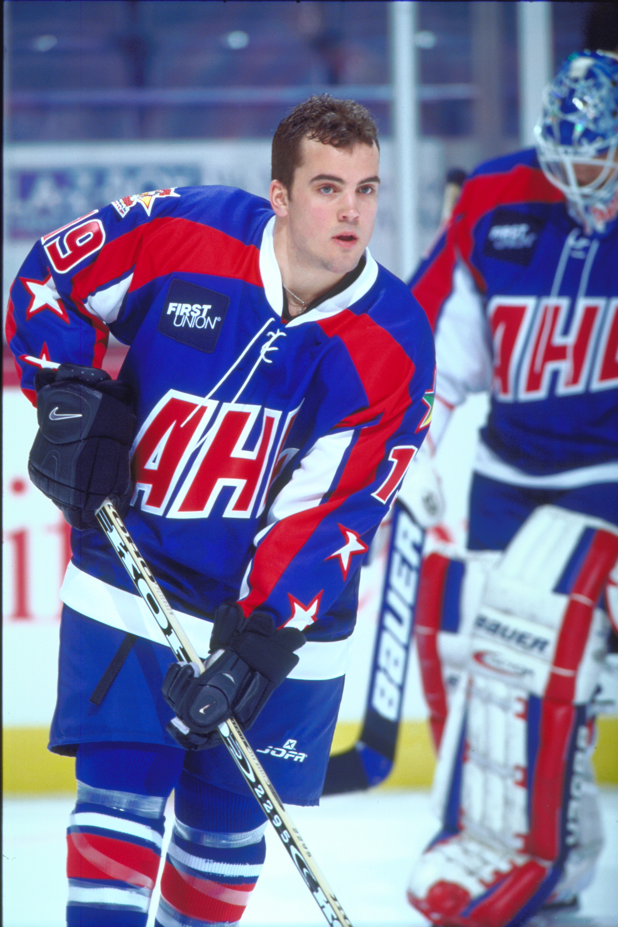 hhof0347